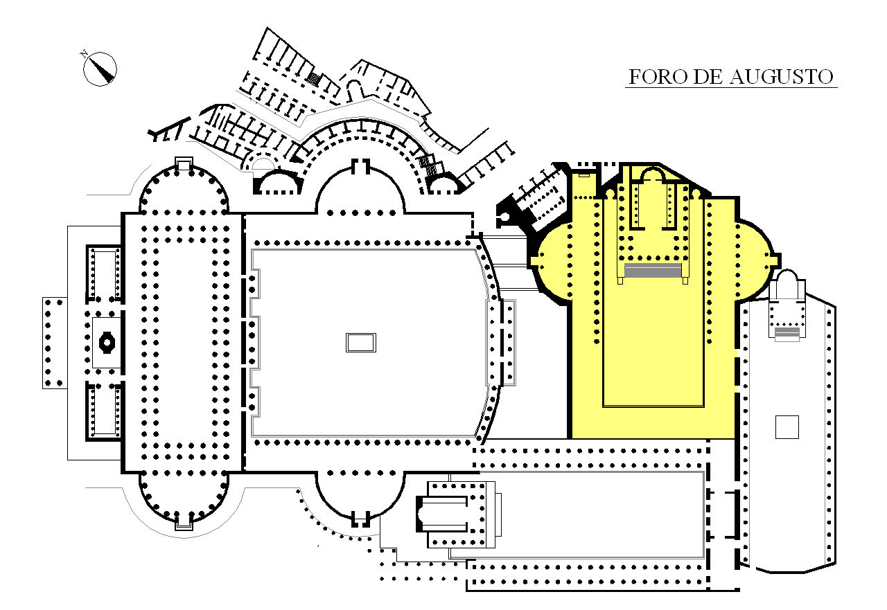 Forum of Augustus